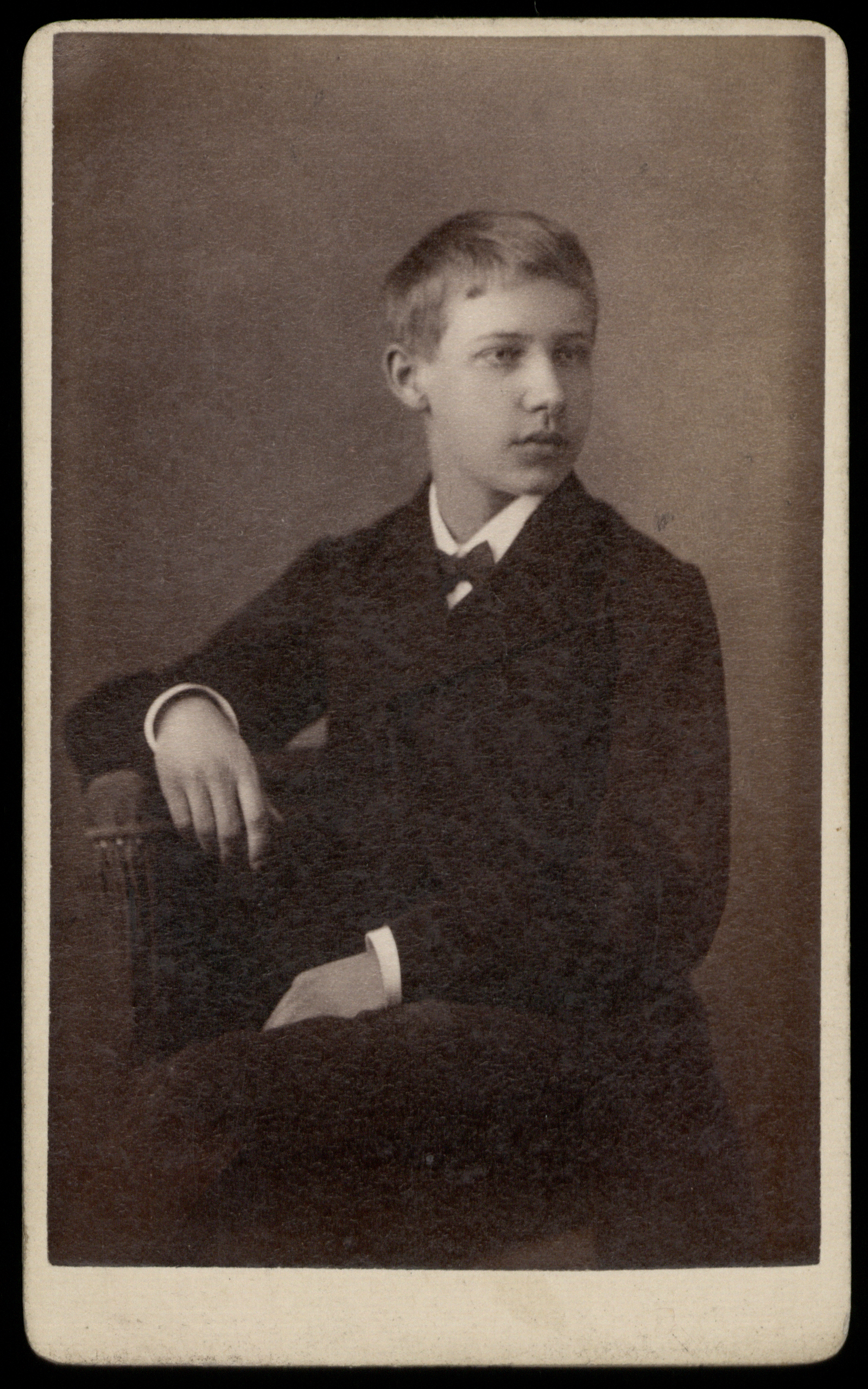 Portrait of Niklaus Bolt (1864-1947), photo